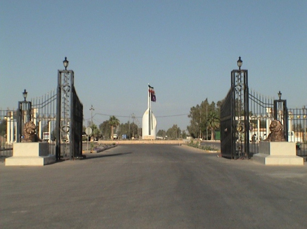 The entrance gate of Ashraf camp. Taken in September 2005.